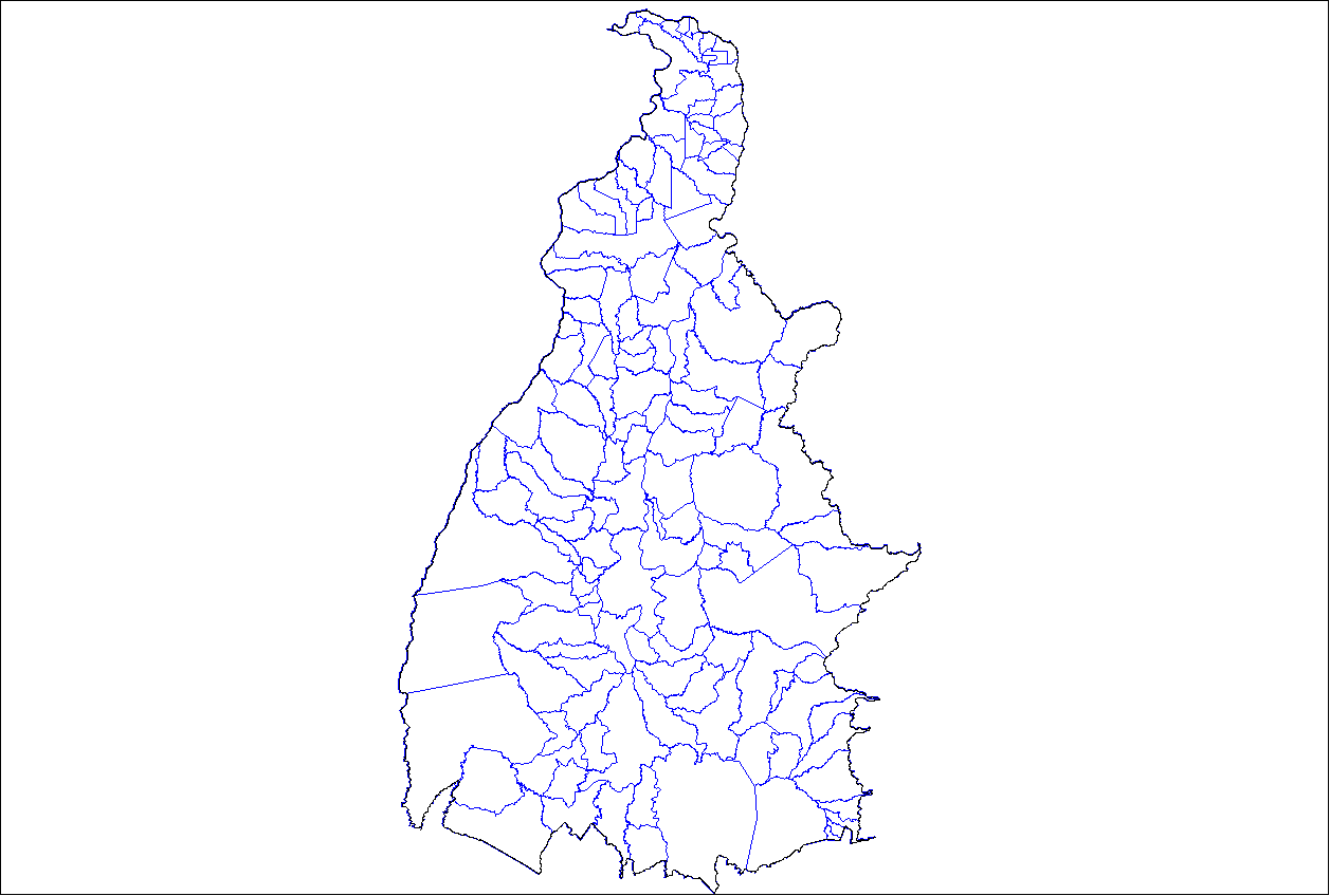 Map of the municipalities of the state of Tocantins, Brazil. Created by Rarelibra 13:49, 25 August 2006 (UTC) for public domain use. Created using MapInfo Professional v8.5 and various mapping resources.